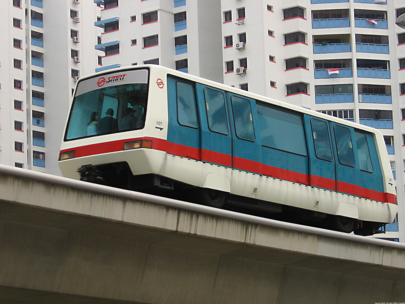 An exterior view of the Bukit panjang LRT Bombardier CX-100 Cars running on the guiderails. Img by Calvin Teo July 2006